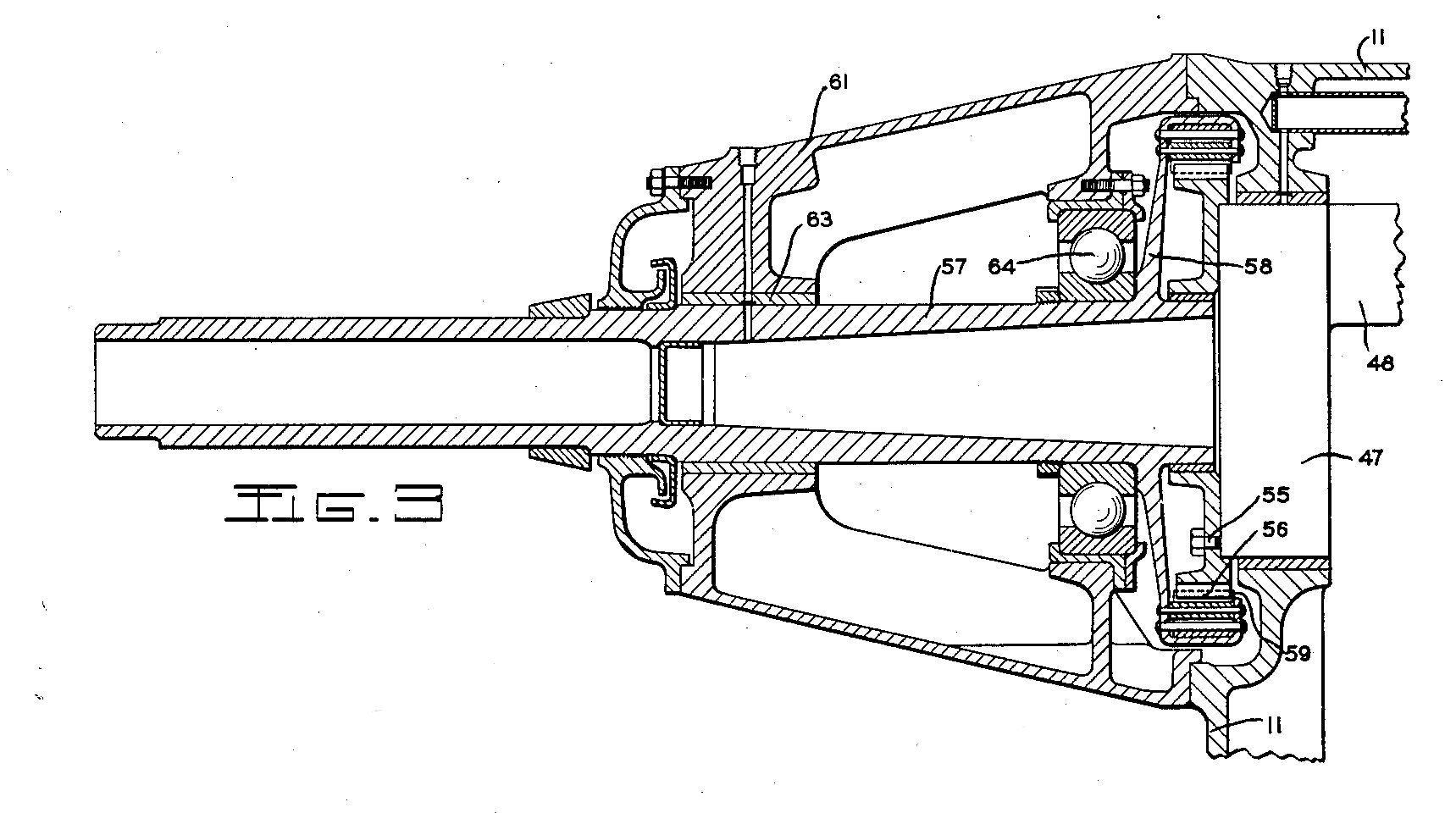 Packard 1A775 engine nose cone Figure 3 is a view in longitudinal section through the forward endof the engine, showing the drive shaft and the connecting gear s